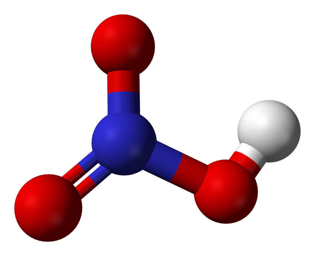 Ball-and-stick model of the nitric acid molecule, HNO3